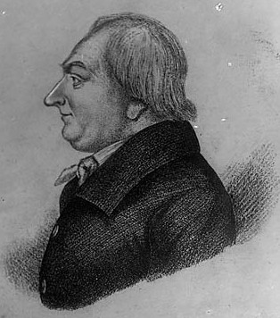 1 negative : glass, dry plate, b&w ; 11 x 8.5 cm.